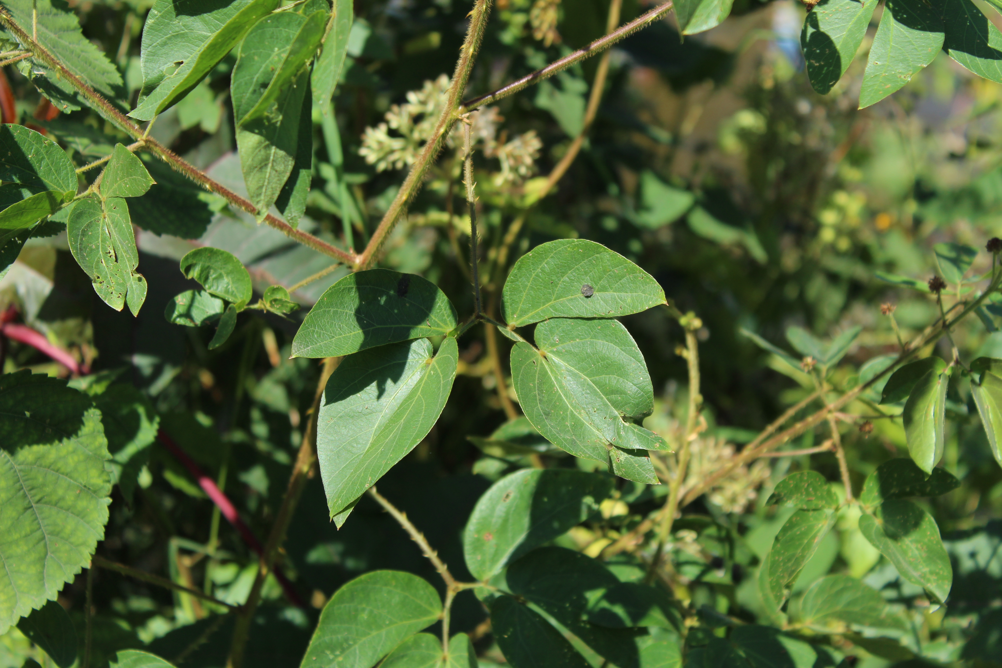 Mimosa albida leaf detail